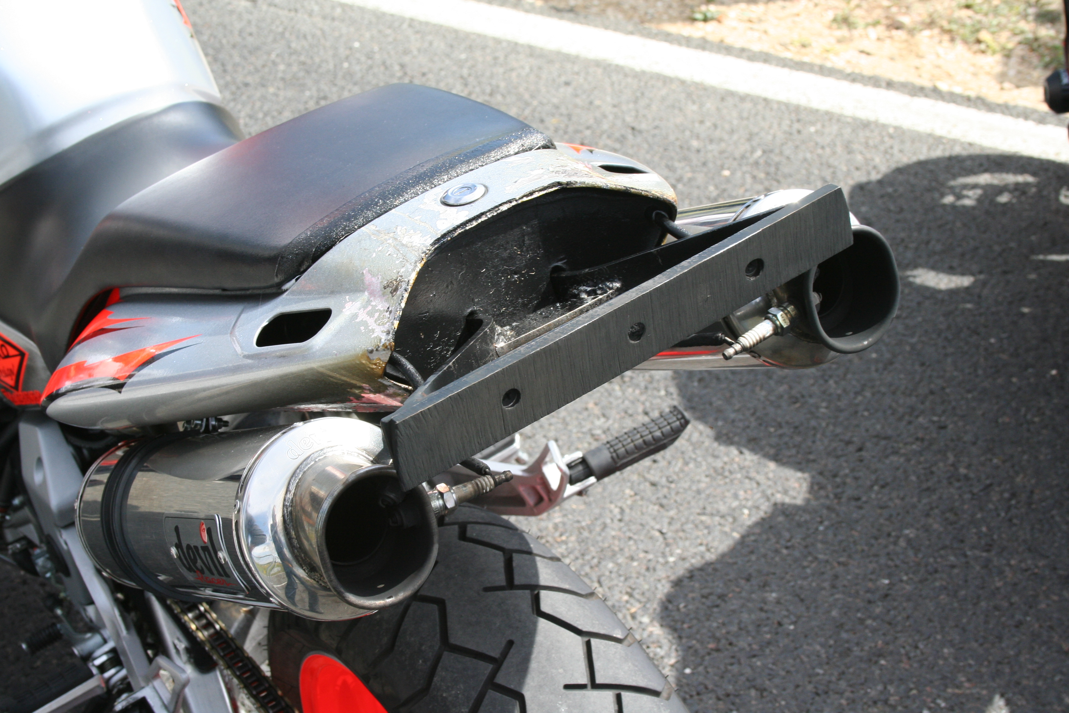 A curling bar